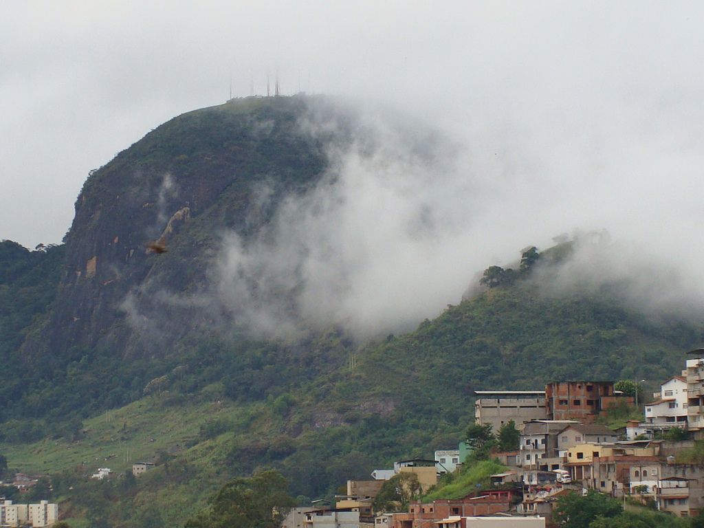 A fog in the Itaúna Rock, in Caratinga, Minas Gerais, Brazil.